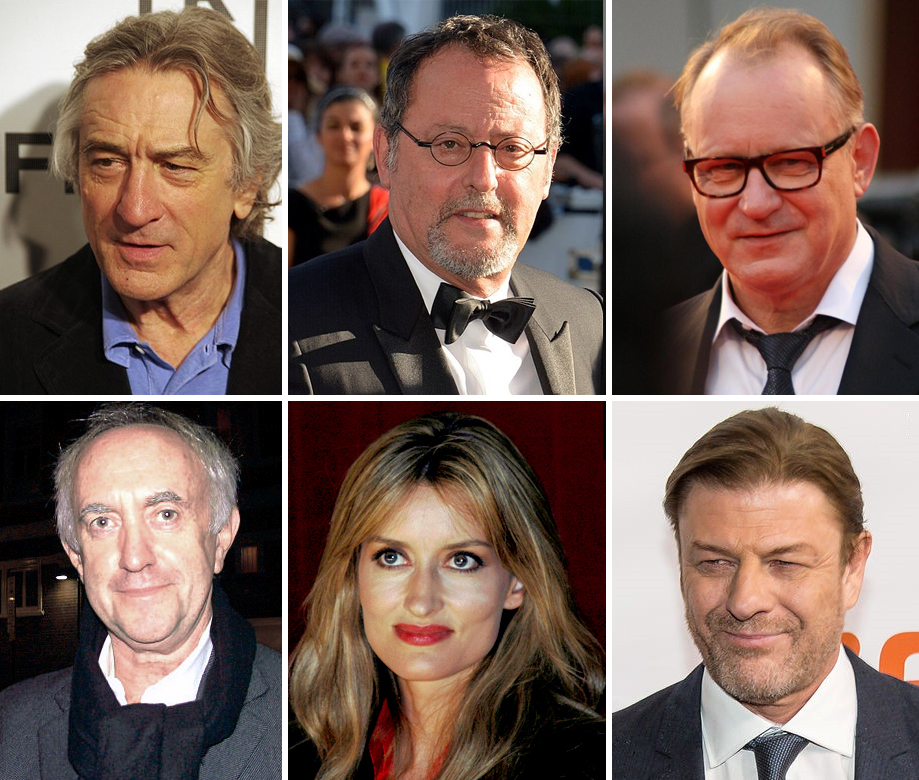 Robert DeNiro in 2011